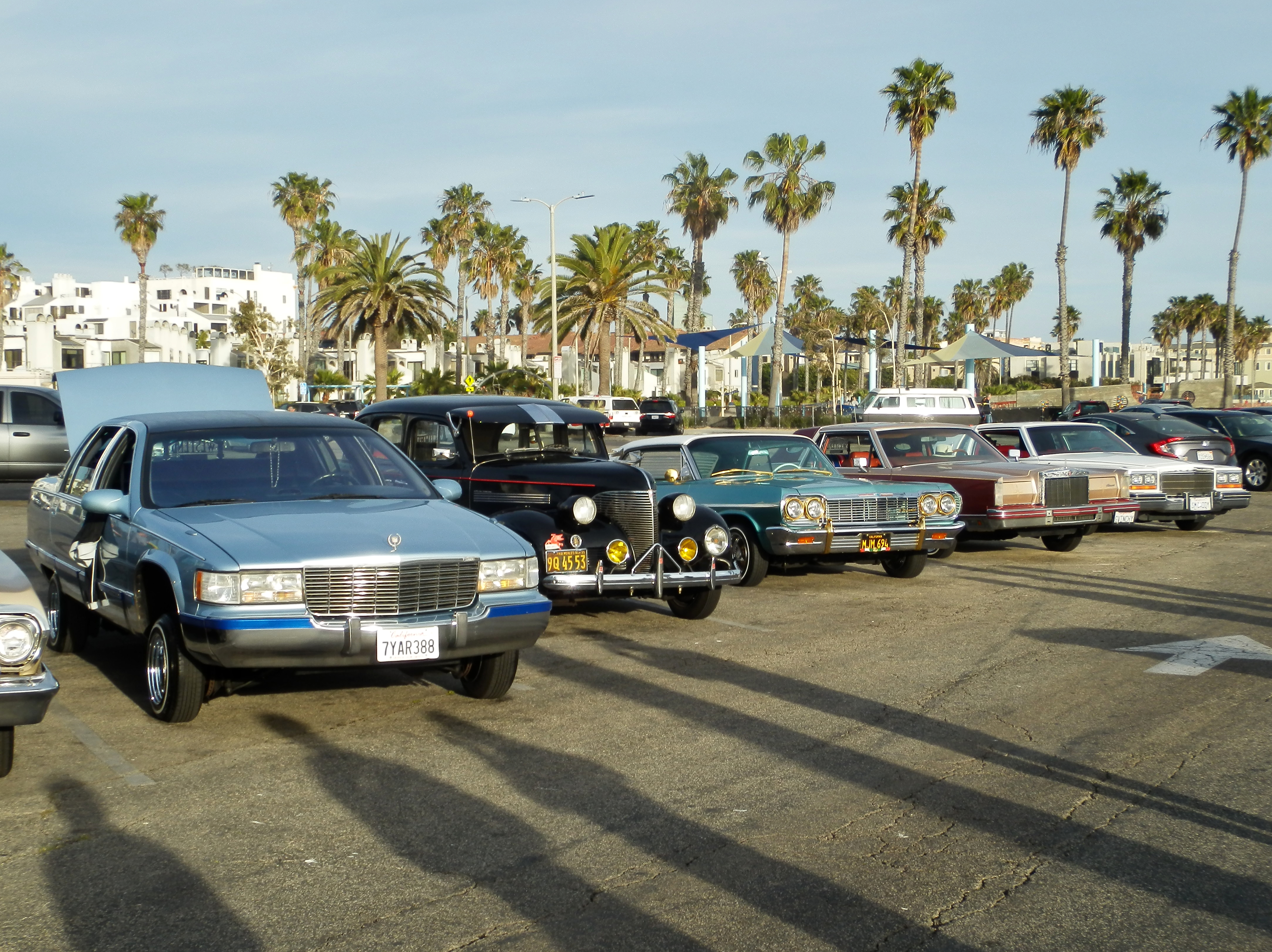 Santa Monica Lowriders